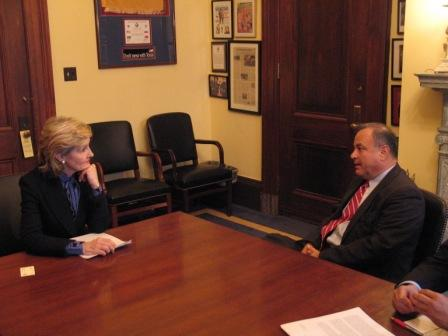 03.27.07 Senator Kay Bailey Hutchison meets with Judge Carlos Cascos of Cameron County